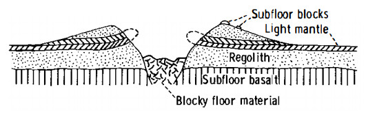 Schematic cross section through Shorty crater with vertical scale exaggerated. This is figure 6-59 of the Apollo 17 Preliminary Science Report.